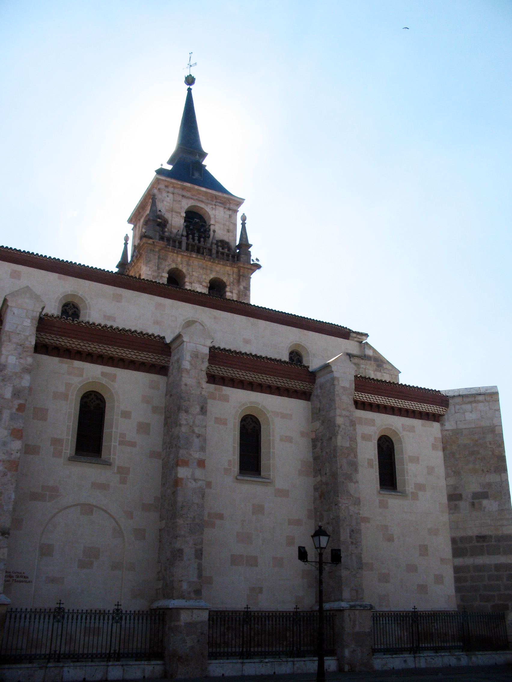 Cathedral of Saints Justus and Pastor, Alcalá de Henares